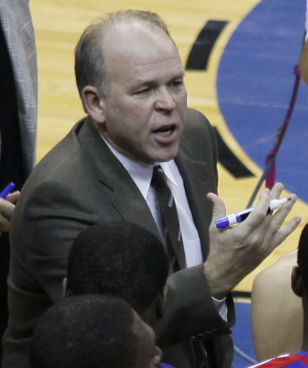 John Kuester as Detroit Pistons coach